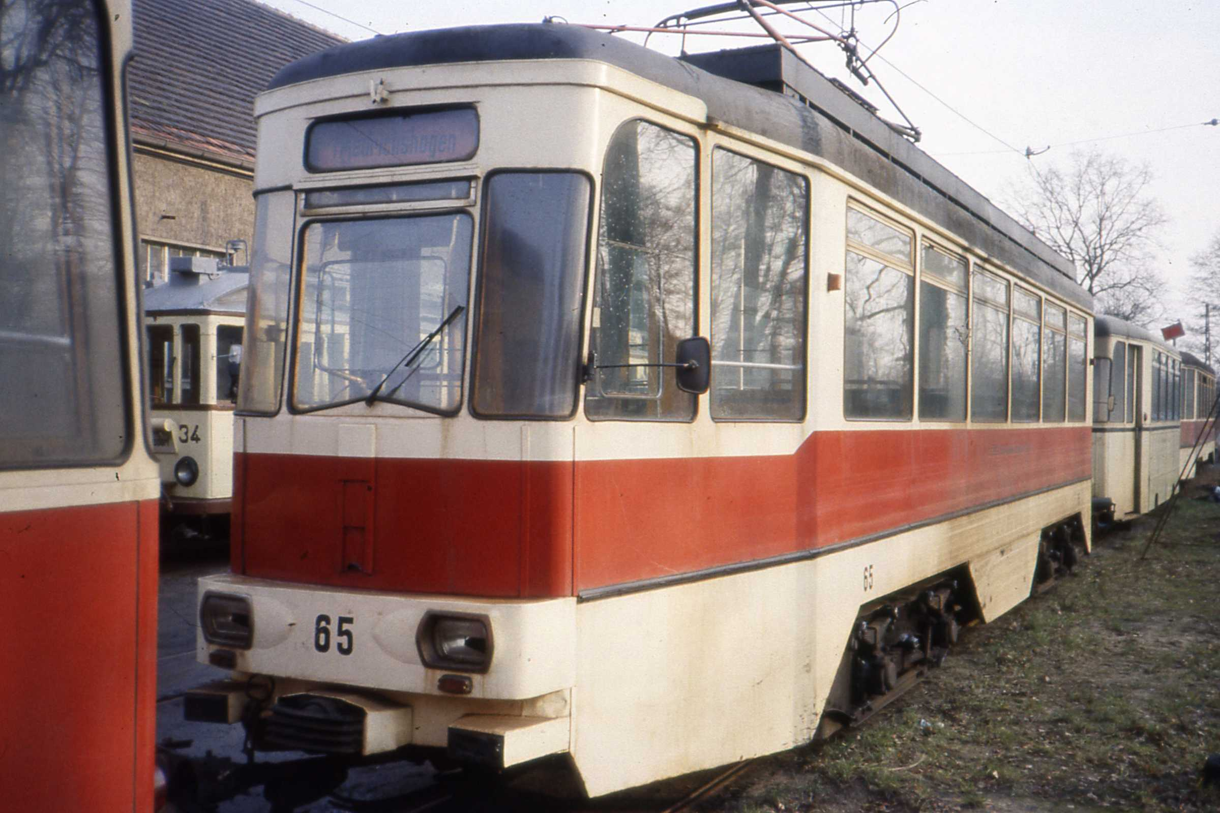 Home-made bogie car no 65. In the background, the preserved historic tram no 34. The vehicle to the left has a slightly different paint finish = probably an ex-Frankfurt (Oder) Reko wagen, of which make were 82/3/4/5 in the Schoeneiche fleet, plus two trailers. This vehicle was withdrawn in 1993 and transferred to Halle, where it was scrapped in 2004.